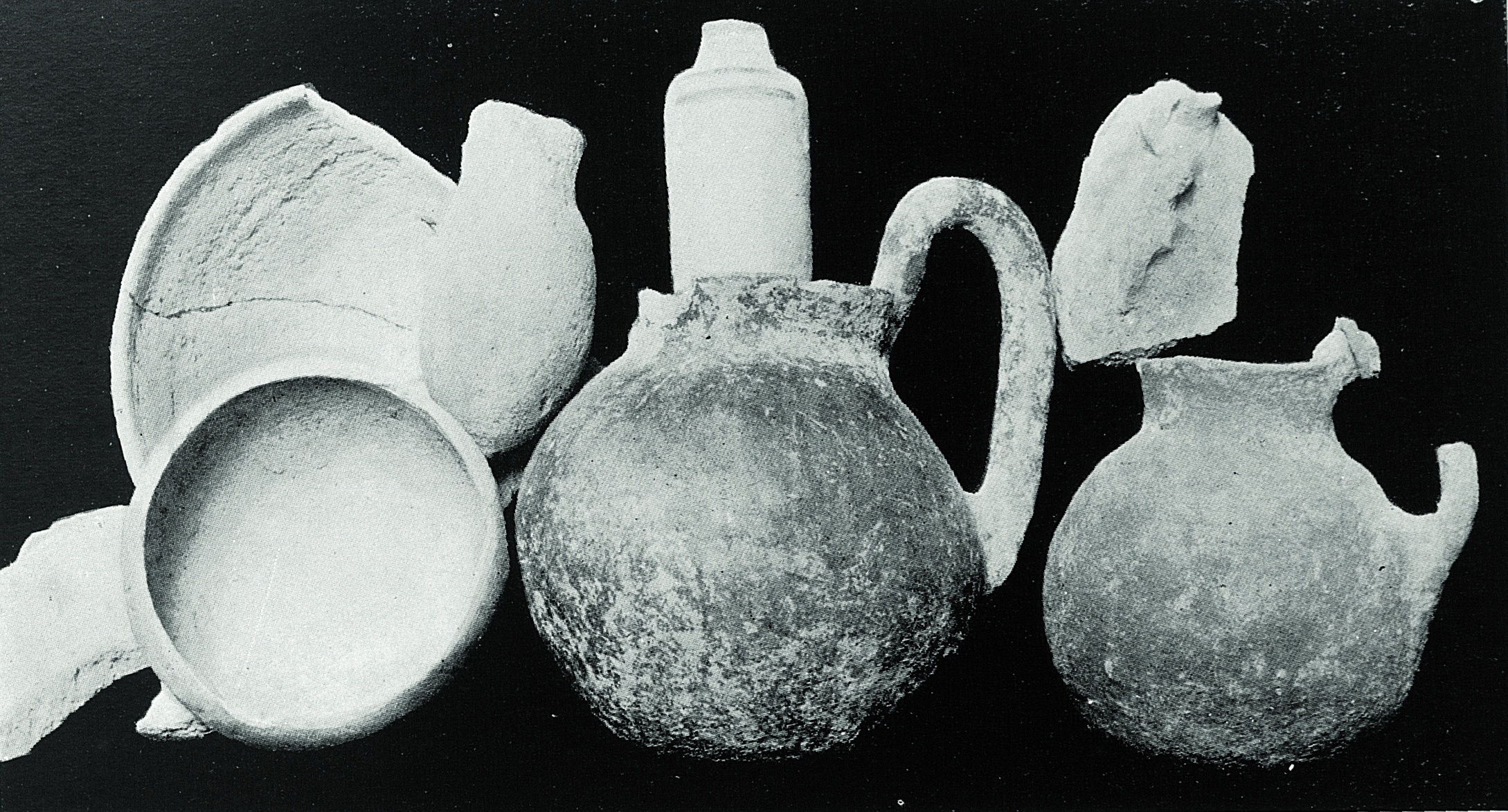 Photograph of Parker mission.